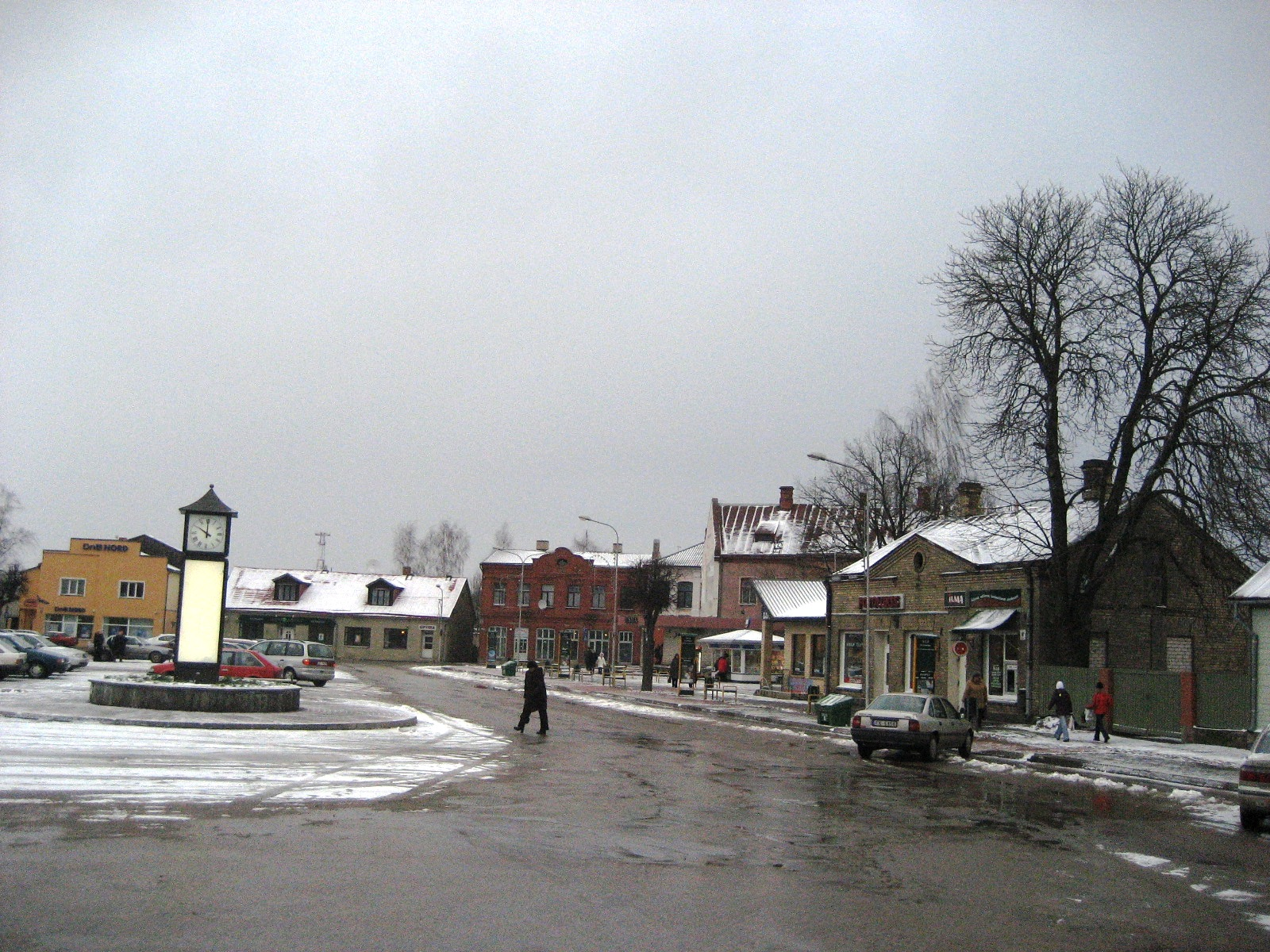 Jēkabpils Old town square